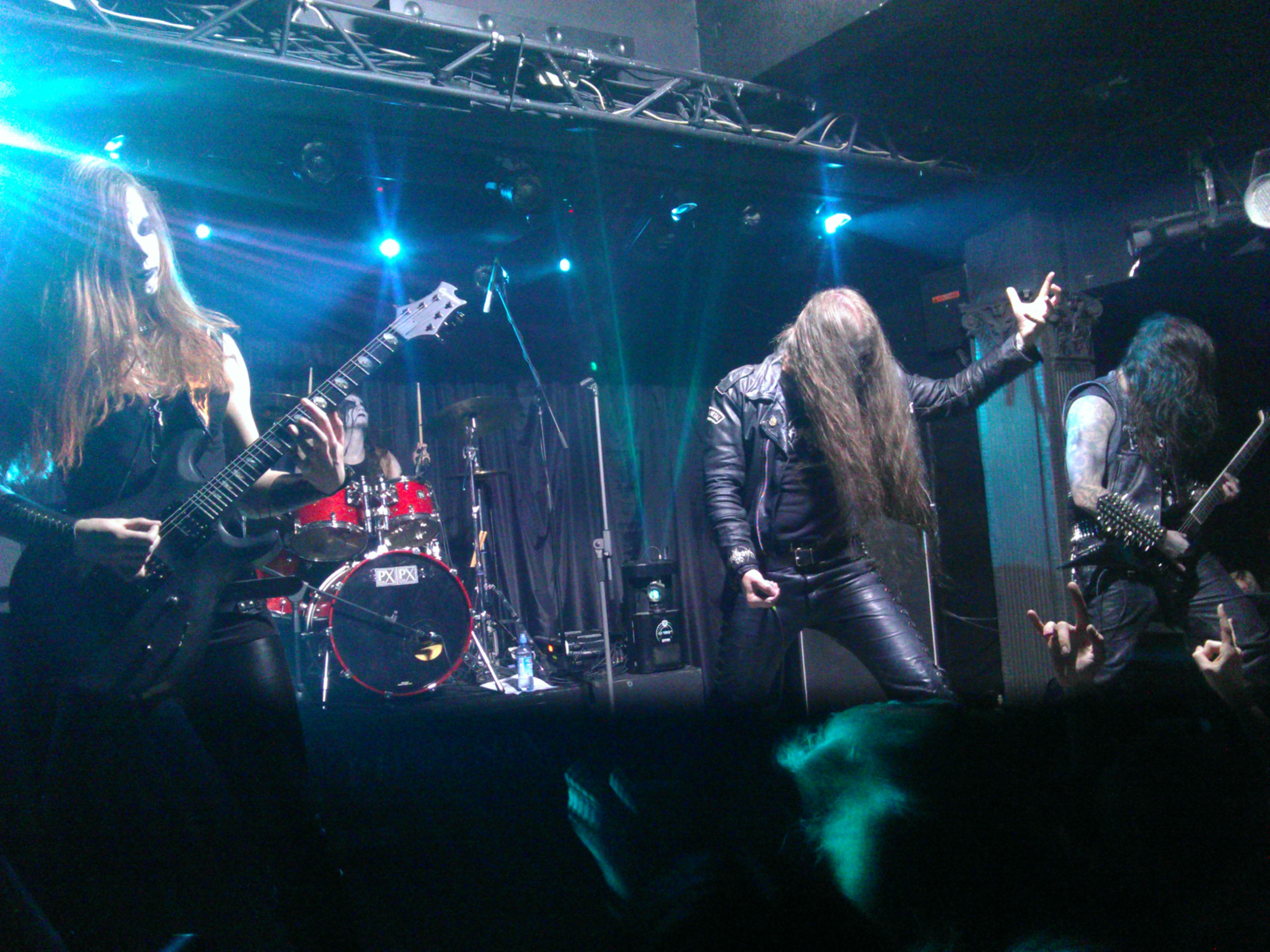 Nargaroth performing at Phoenix club, Saint Petersburg. Left to right: Obscura, Ash, Beliath.